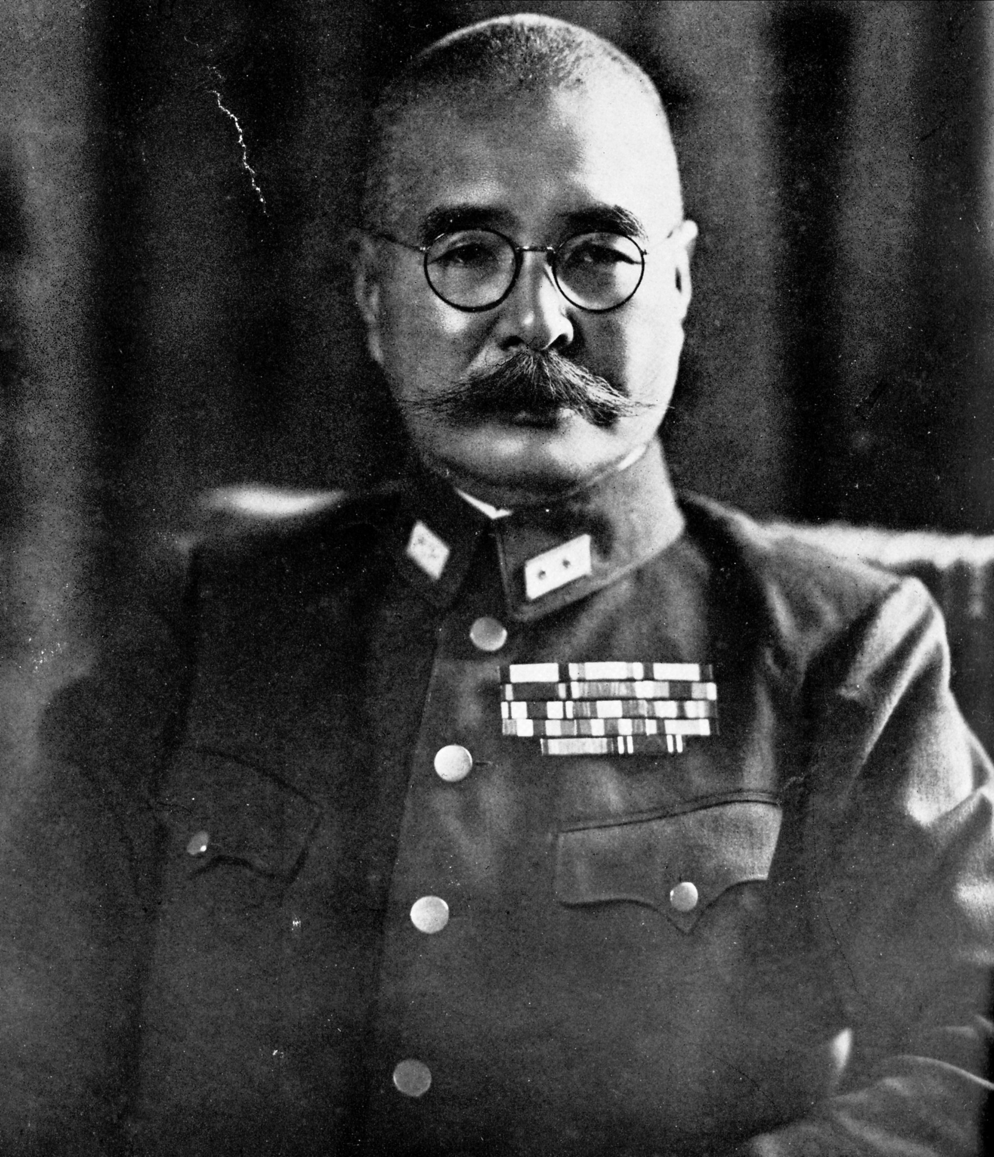 Lieutenant General Rikichi Ando.